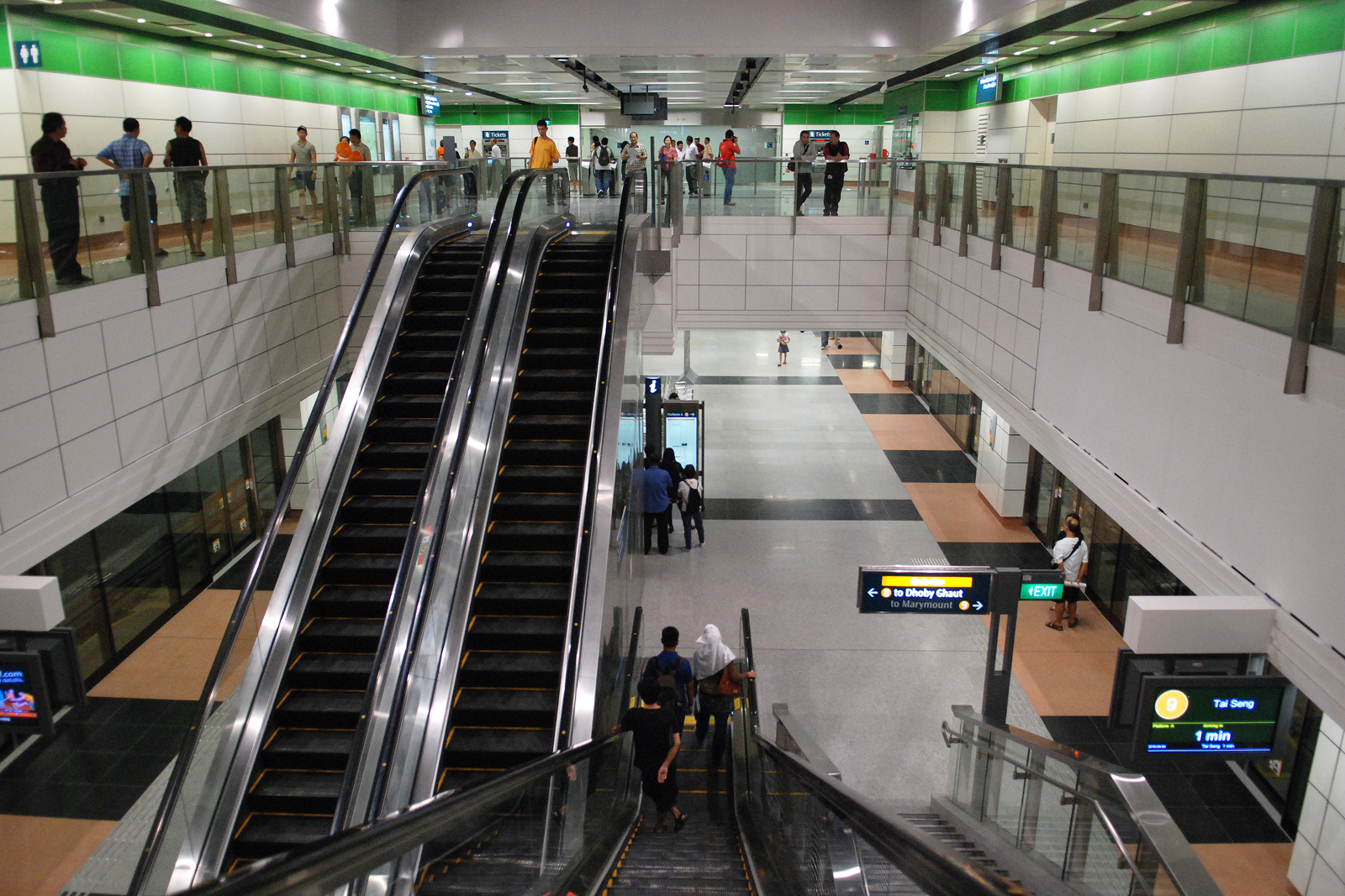 Interior view of Dakota MRT Station, Singapore.